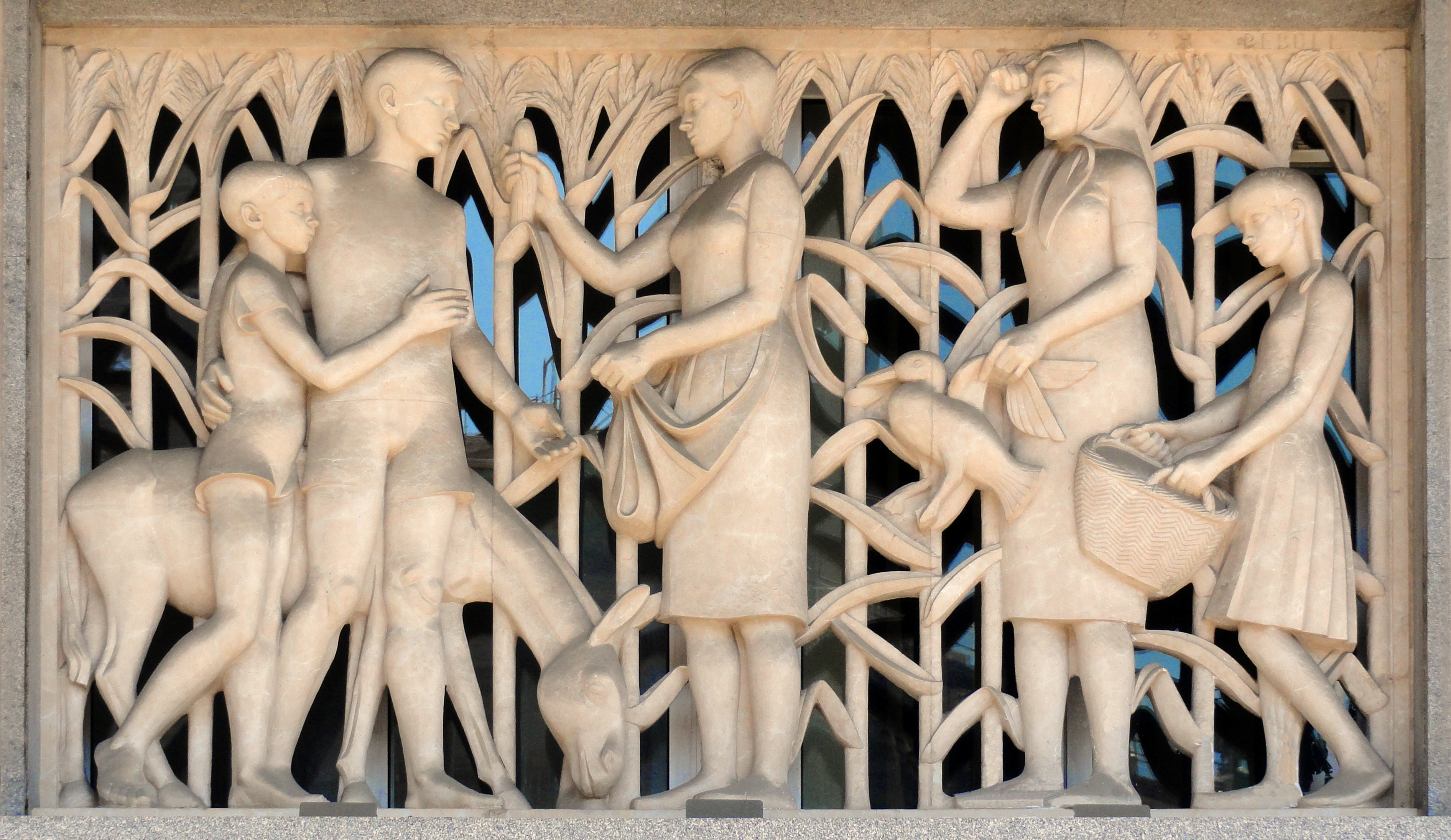 Joan Rebull, sculpture, stone, approximately 170 x 300 cm, Passeig de Sant Joan 102, Barcelona